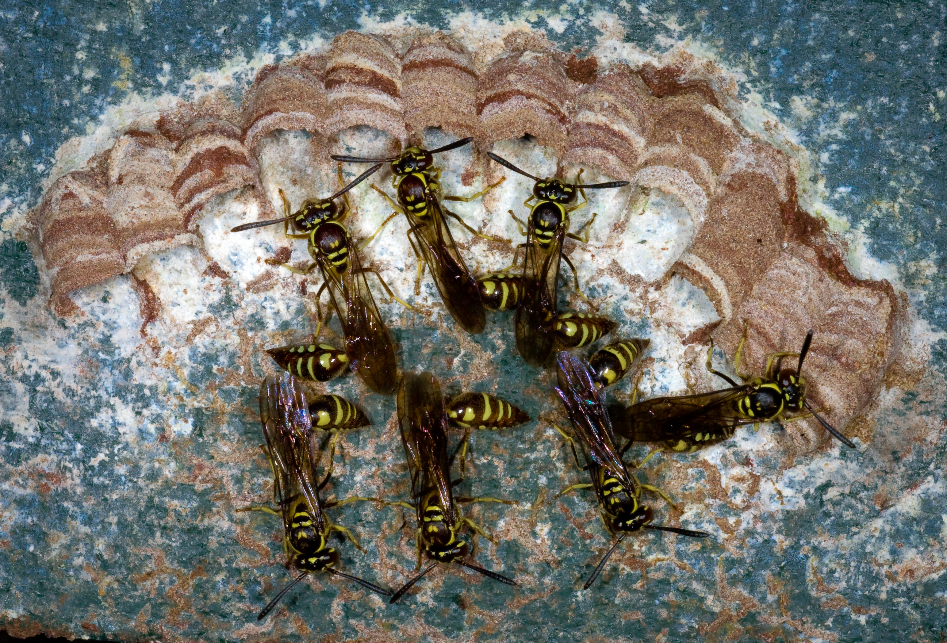 Colony of Liostenogaster vechti. Peninsular Malaysia